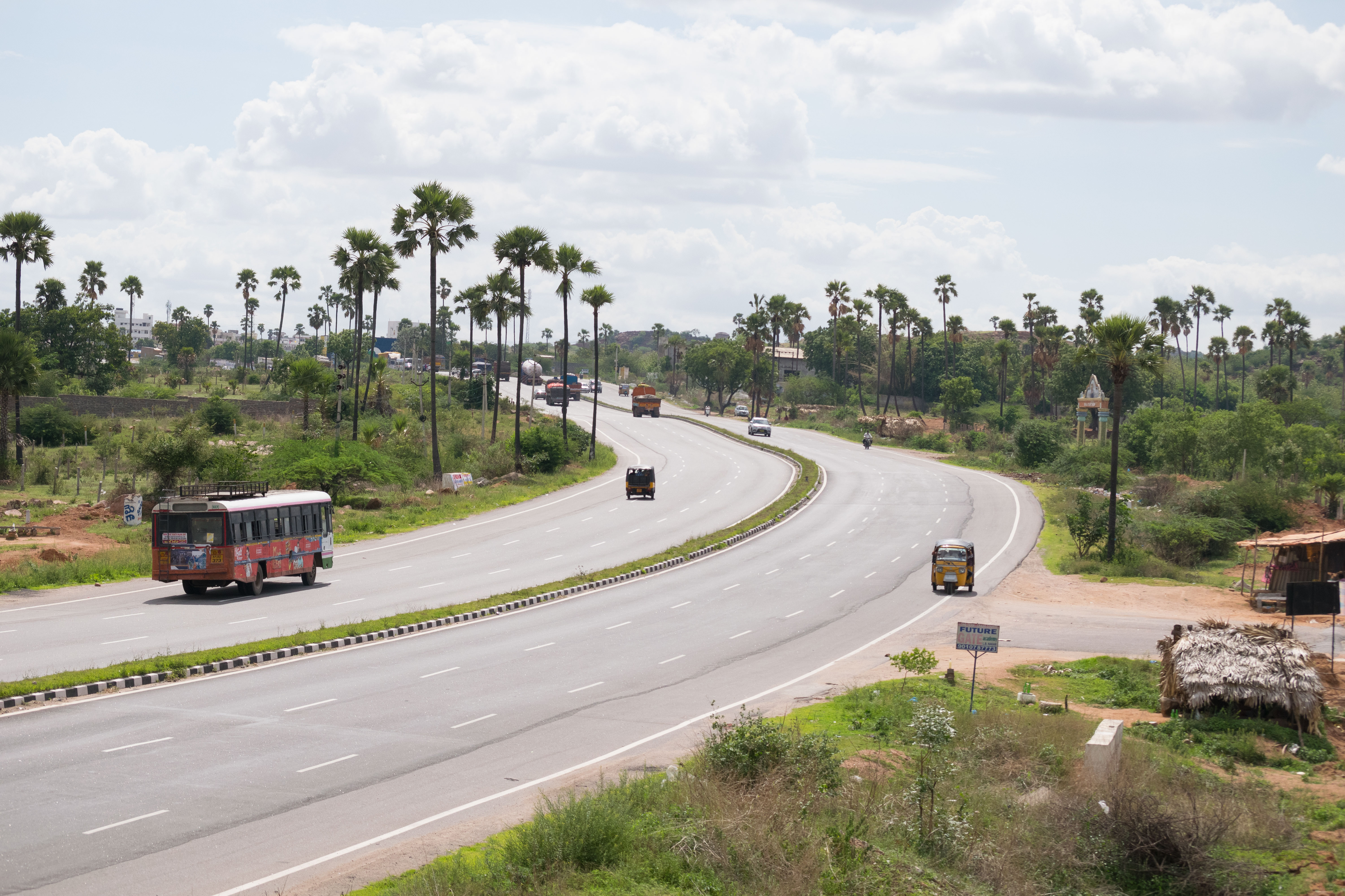 A view of NH 65 near Hyderabad